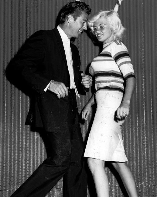 Photo of Jayne Mansfield and husband Mickey Hargitay dancing at the Candy Stik Lounge.